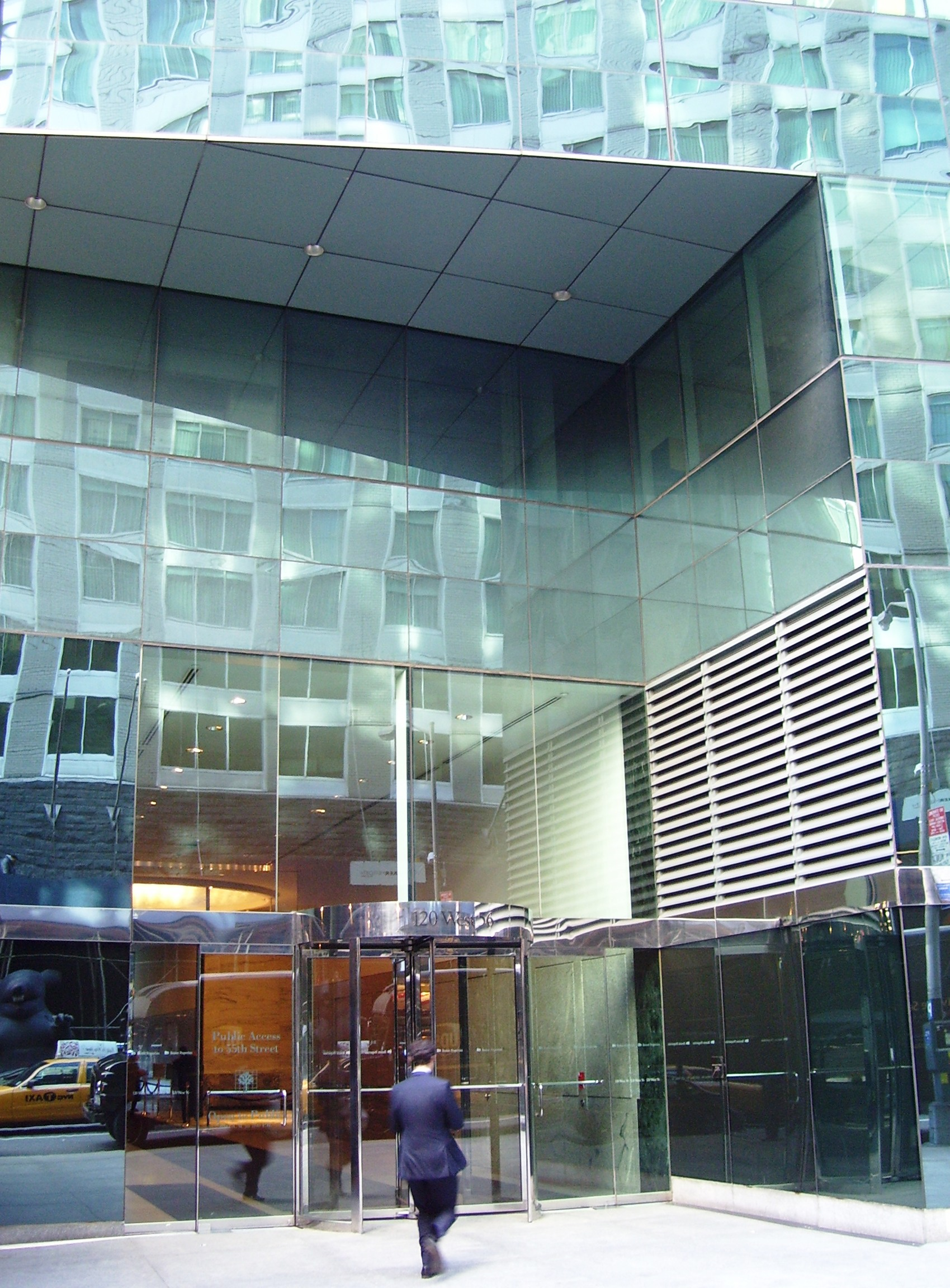 120 West 56th Street between the Avenue of the Americas (Sixth Avenue) and Seventh Avenue in Midtown Manhattan is the 56th Street entrance to 125 West 55th Street, built in 1988-90 and designed by Edward Larrabee Barnes.